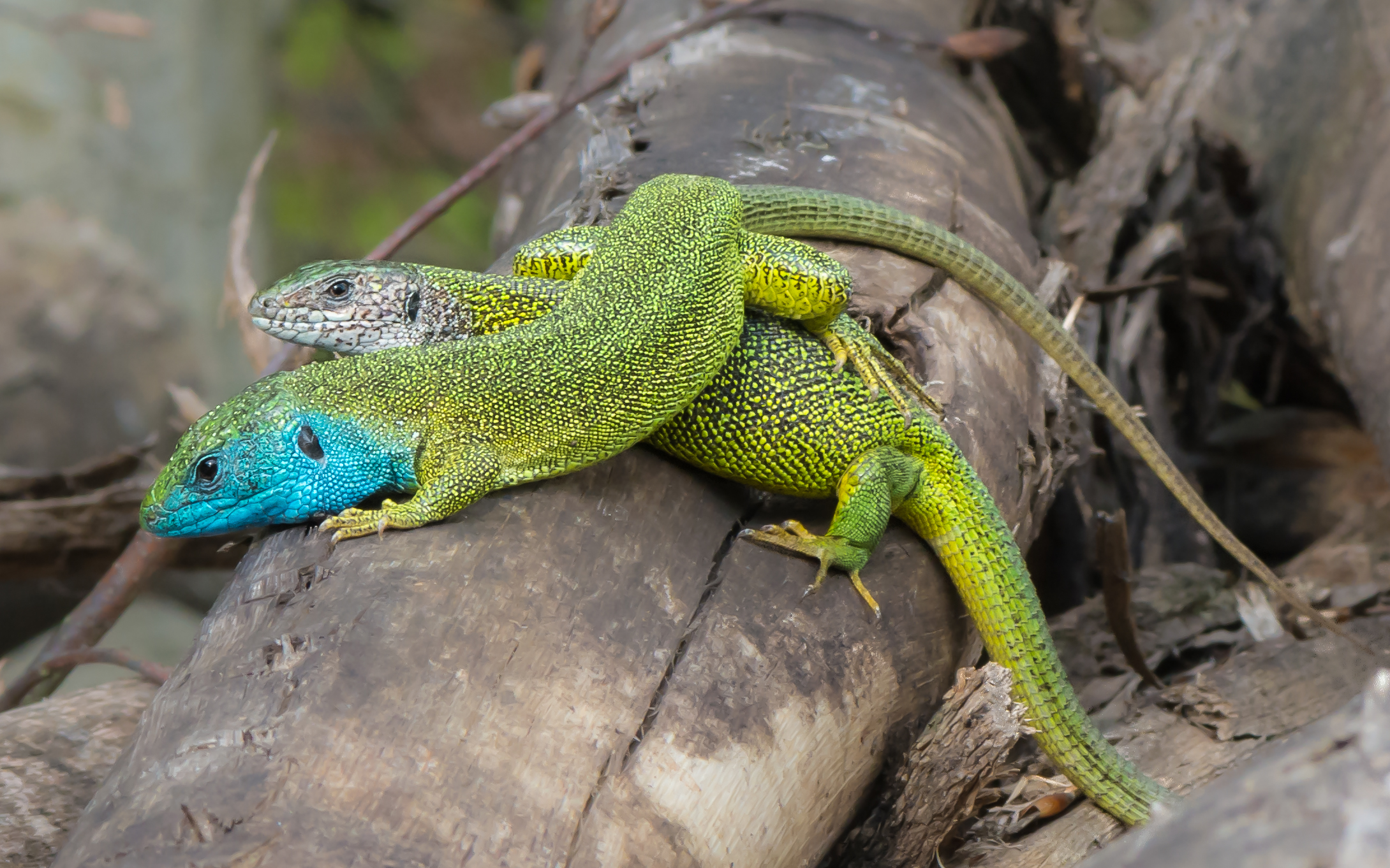 Couple of European green lizard (Lacerta viridis). This male individuum (in front) is approx. 35-40 cm long, the female is approx. 25-30 cm long.